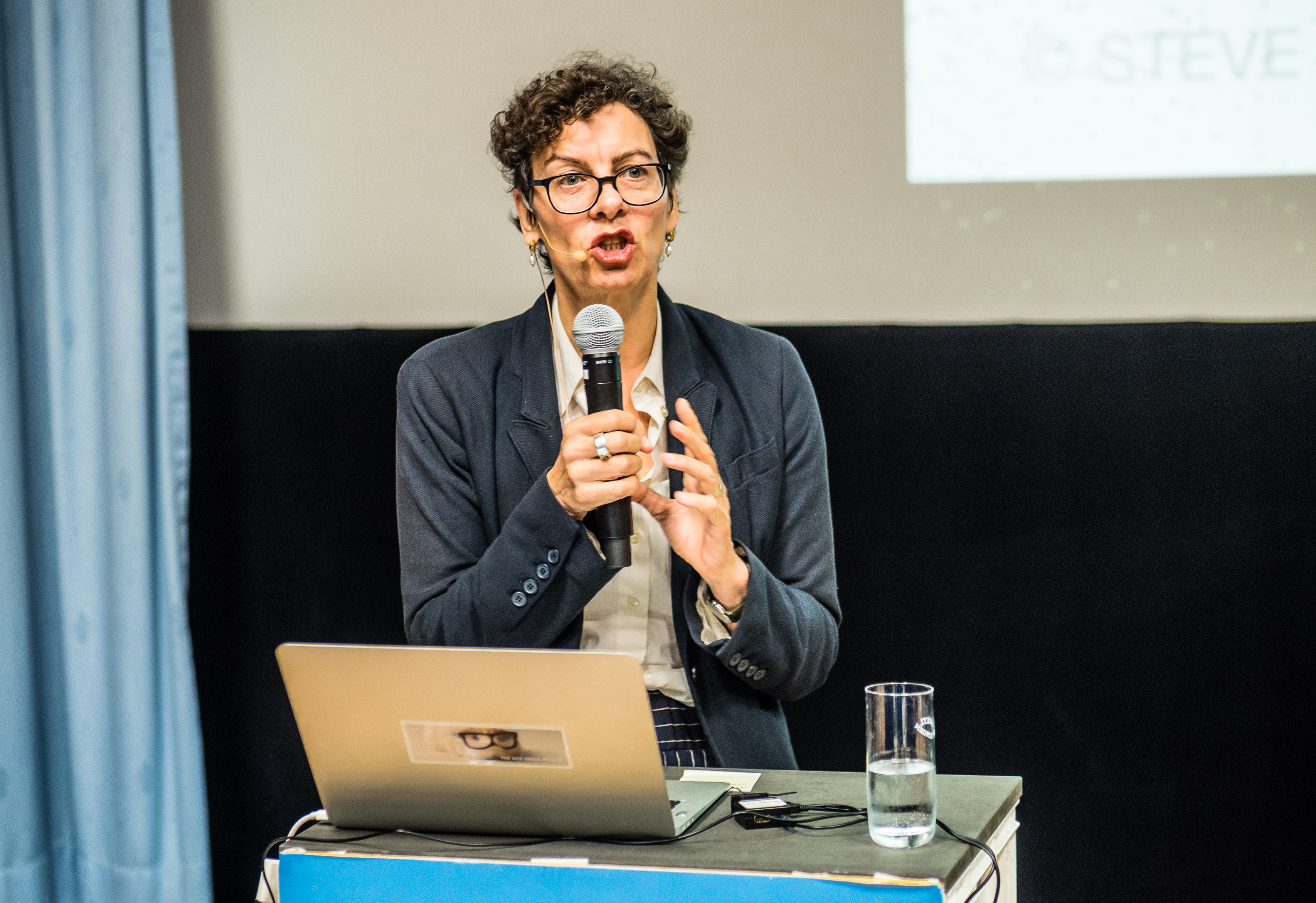 Jeanette Hofmann talking at "Das ist Netzpolitik!" 2017